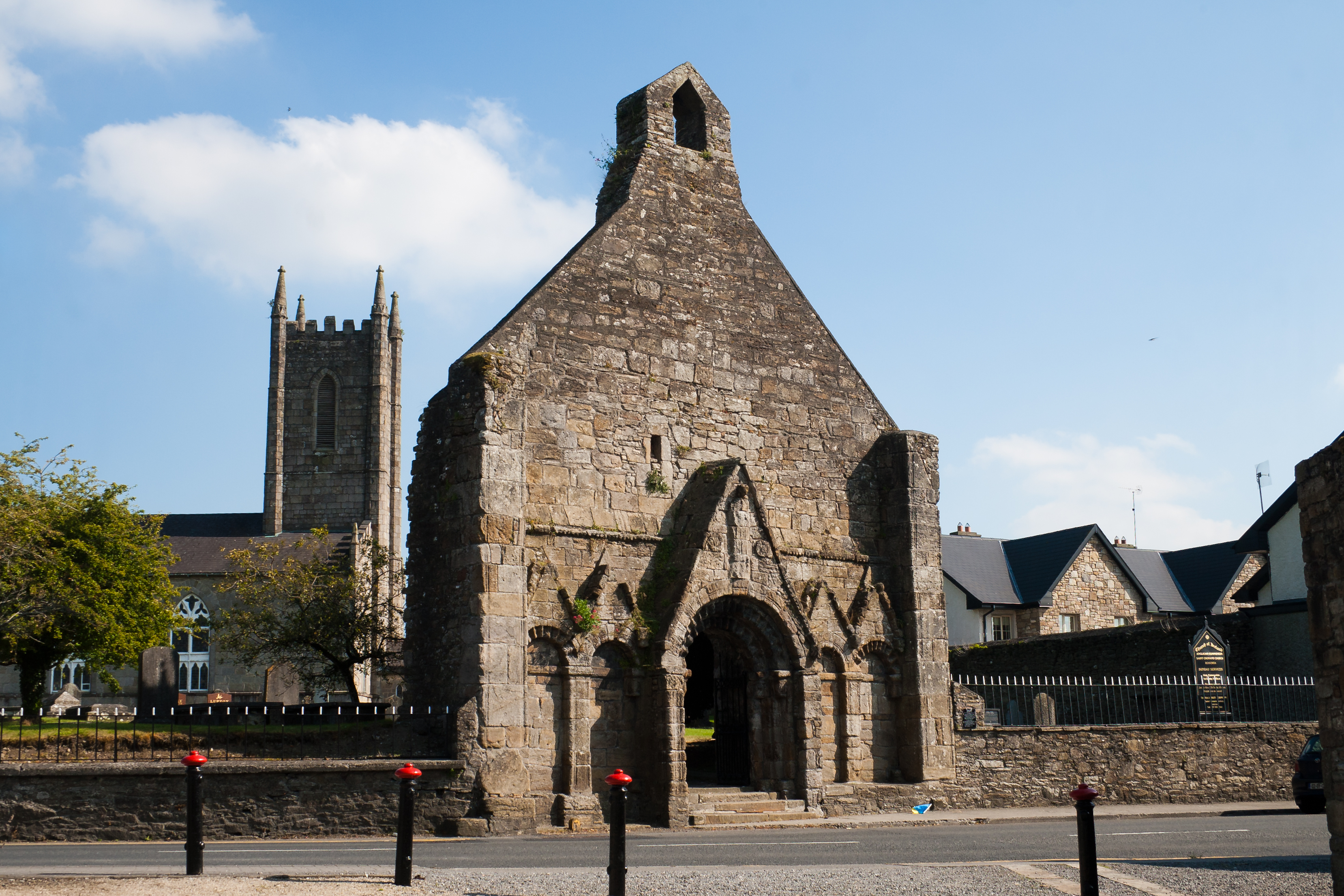 Surviving west gable of St. Cronan's Romanesque Church in front of St. Cronan's Anglican Parish Church which was erected in 1812 using the stones from the demolished Romanesque church.